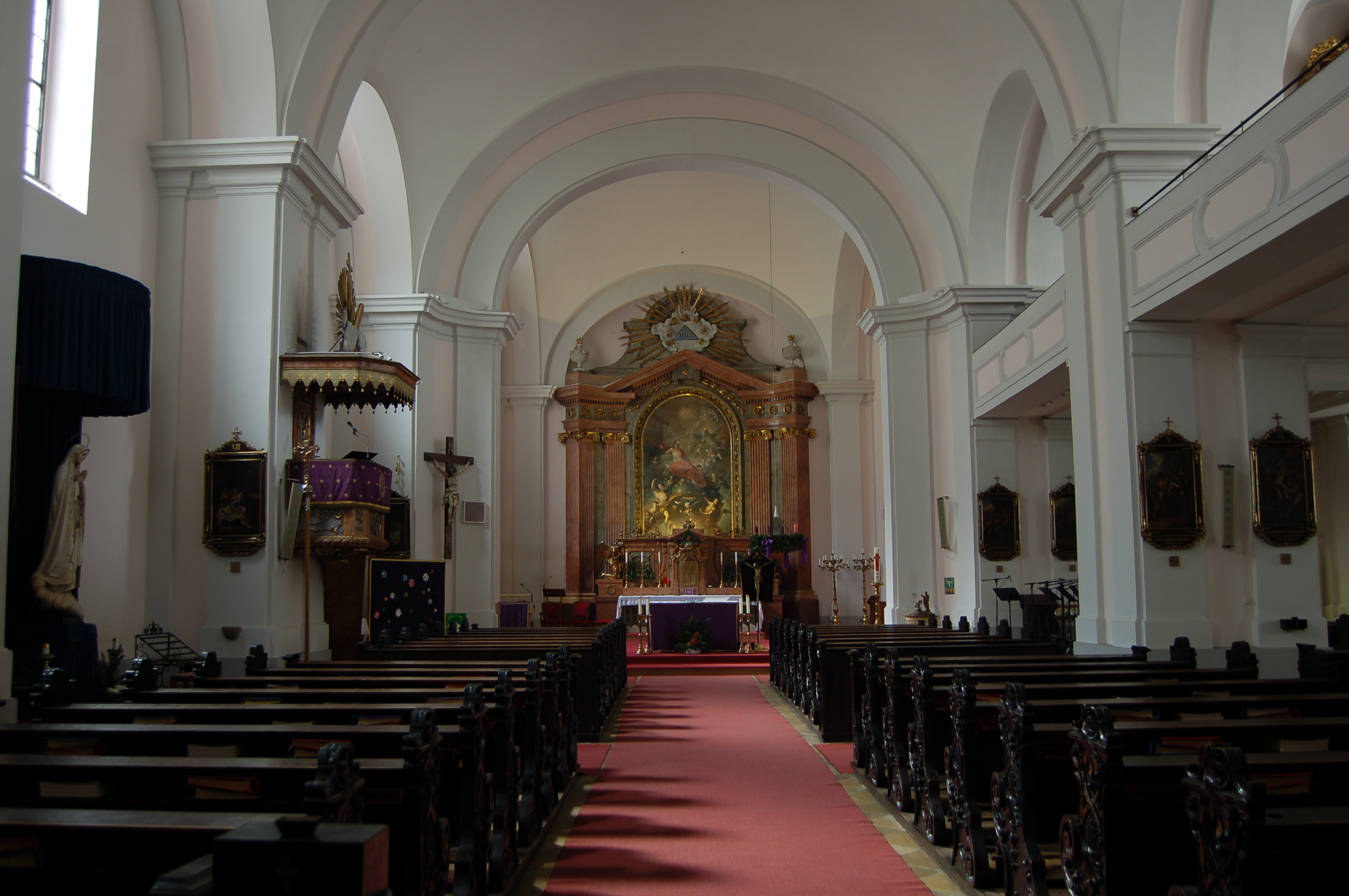 Interior of Reindorf parish church Most Sacred Trinity, Vienna's 15th district